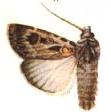 PLATE LX.